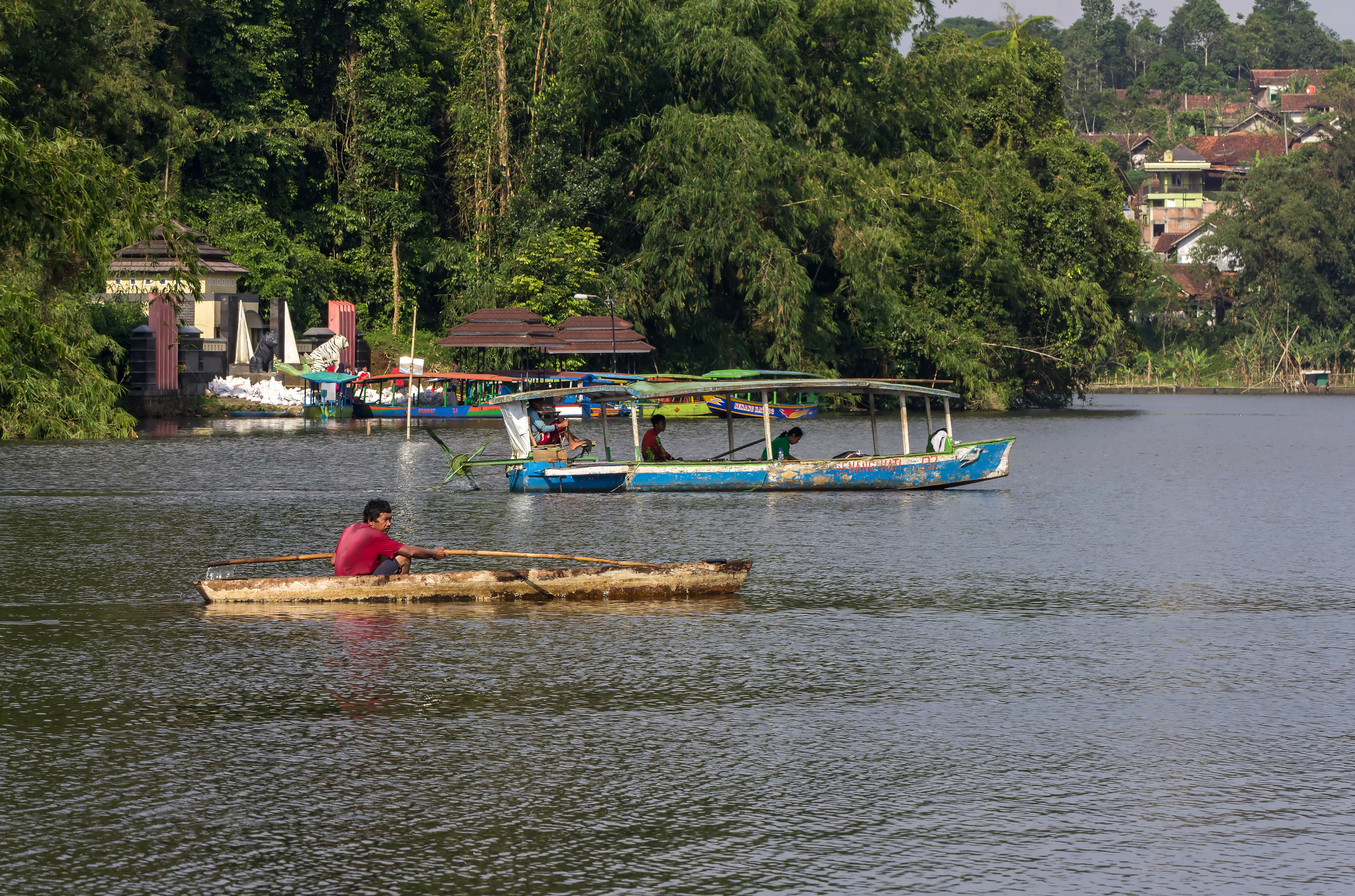 Boats on Situ Lengkong, Ciamis 2017-03-11